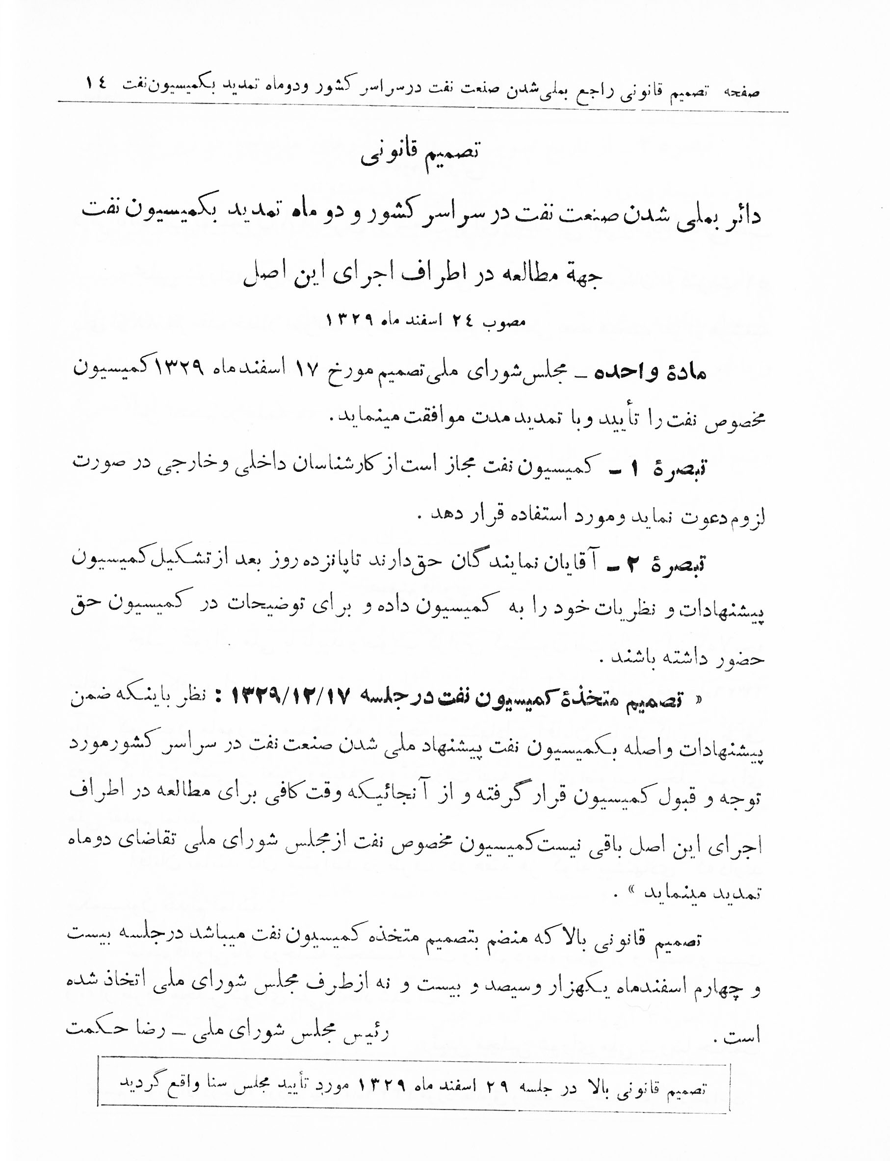 Law of Nationalizing Iranian Oil, all over the country. Majlis Shora Melli, 16th Legislative Period. page 14.